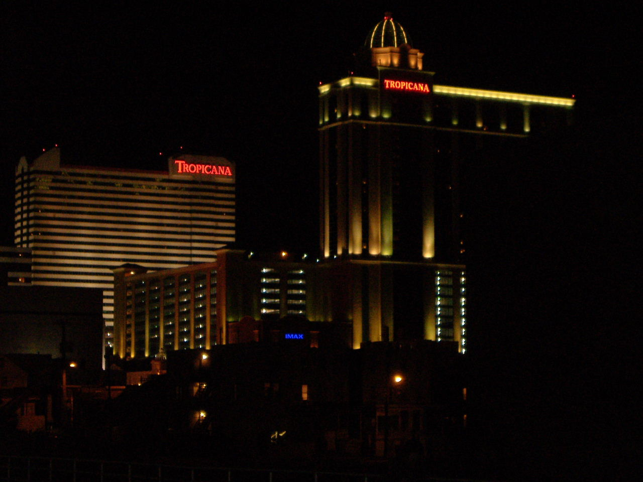 The Topicana Hotel and Casino in Atlantic City, New Jersey as seen at night.